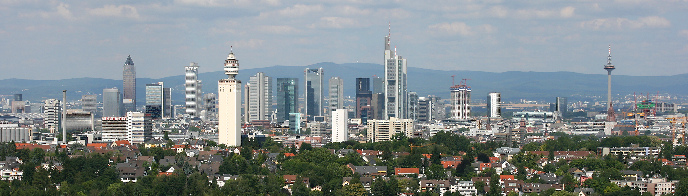 Cityscape of Frankfurt am Main, Germany.